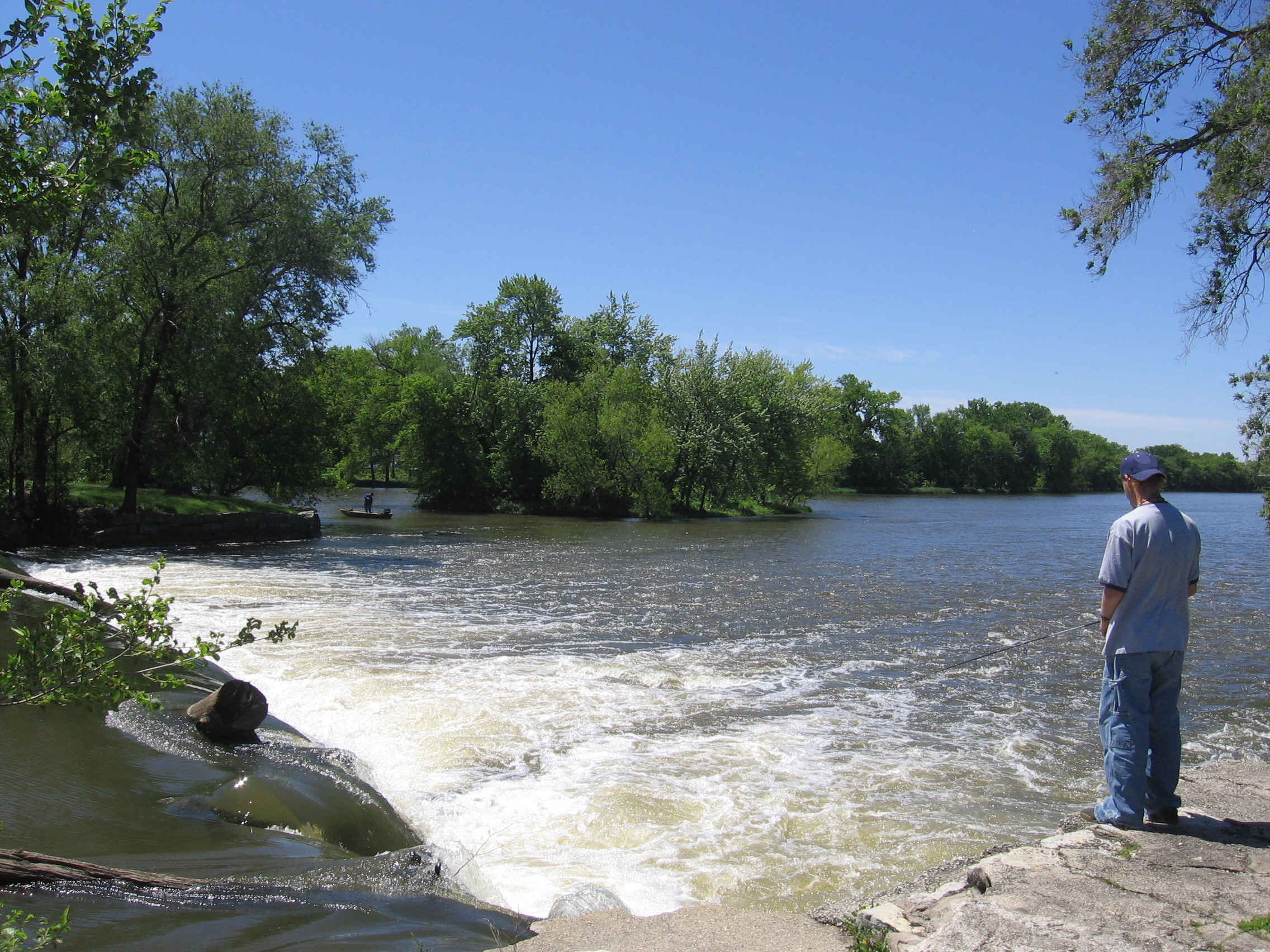 A photo of the Kankakee River washing over the small dam at Momence, Illinois with a fisherman standing on the bank and another in a boat on the far side of the river.